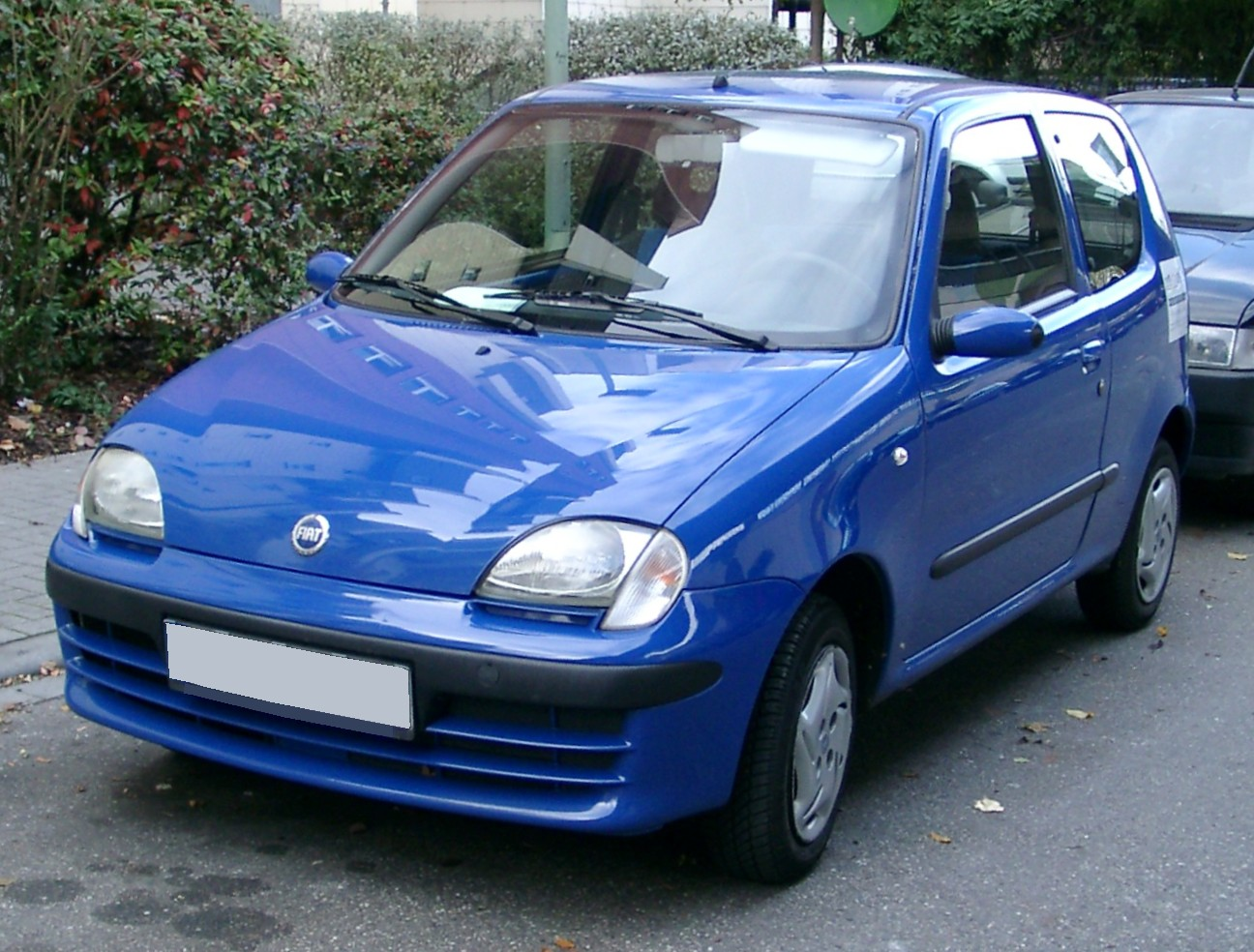 Fiat Seicento S car in Germany.